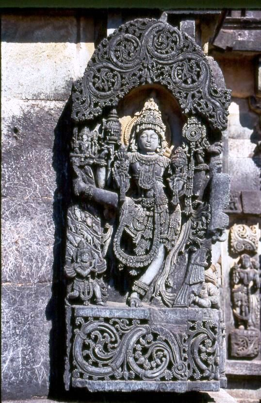 Vamana avatar, Hoysala Dynasty, Halebid, Karnataka, India